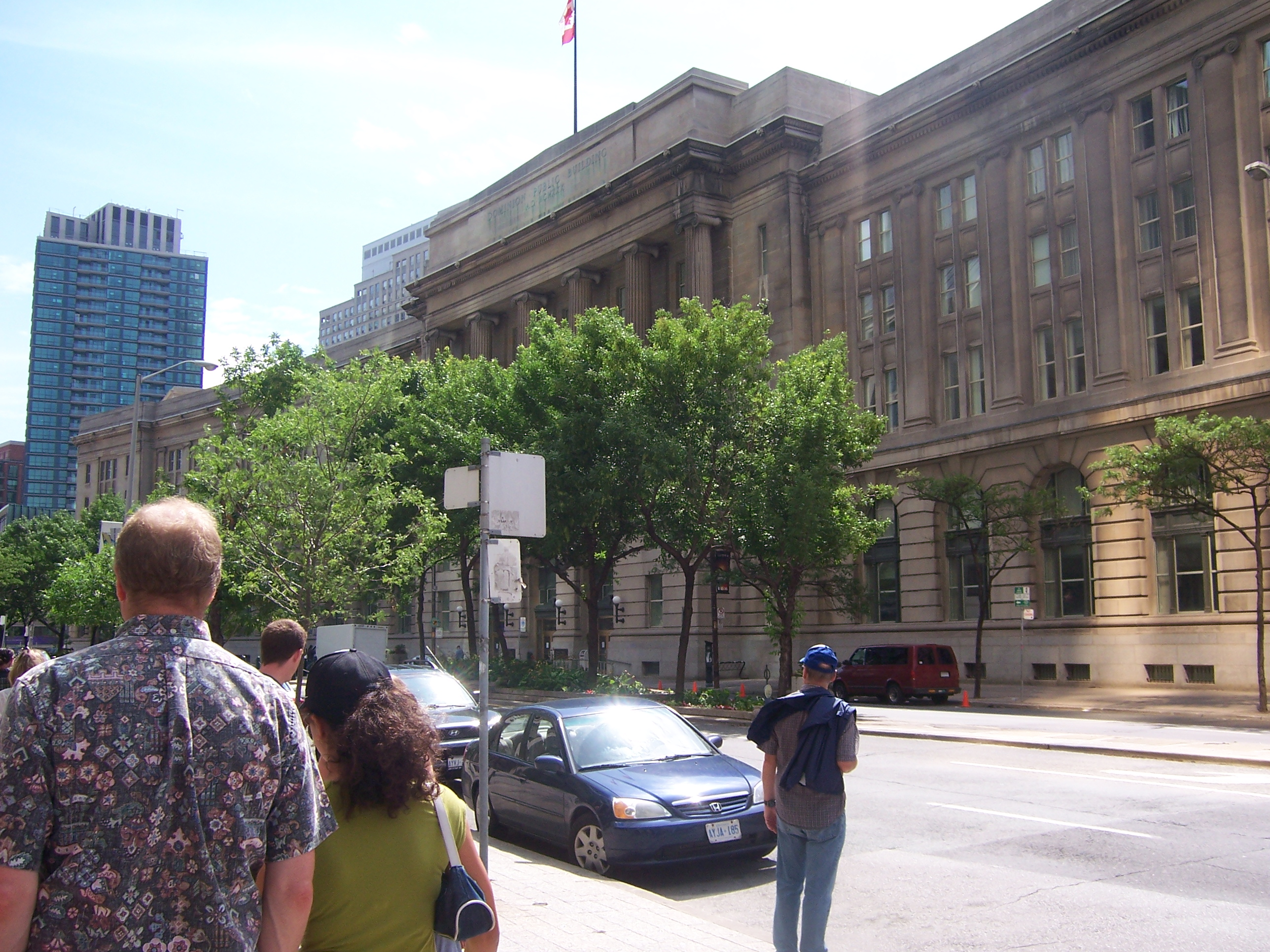 toronto